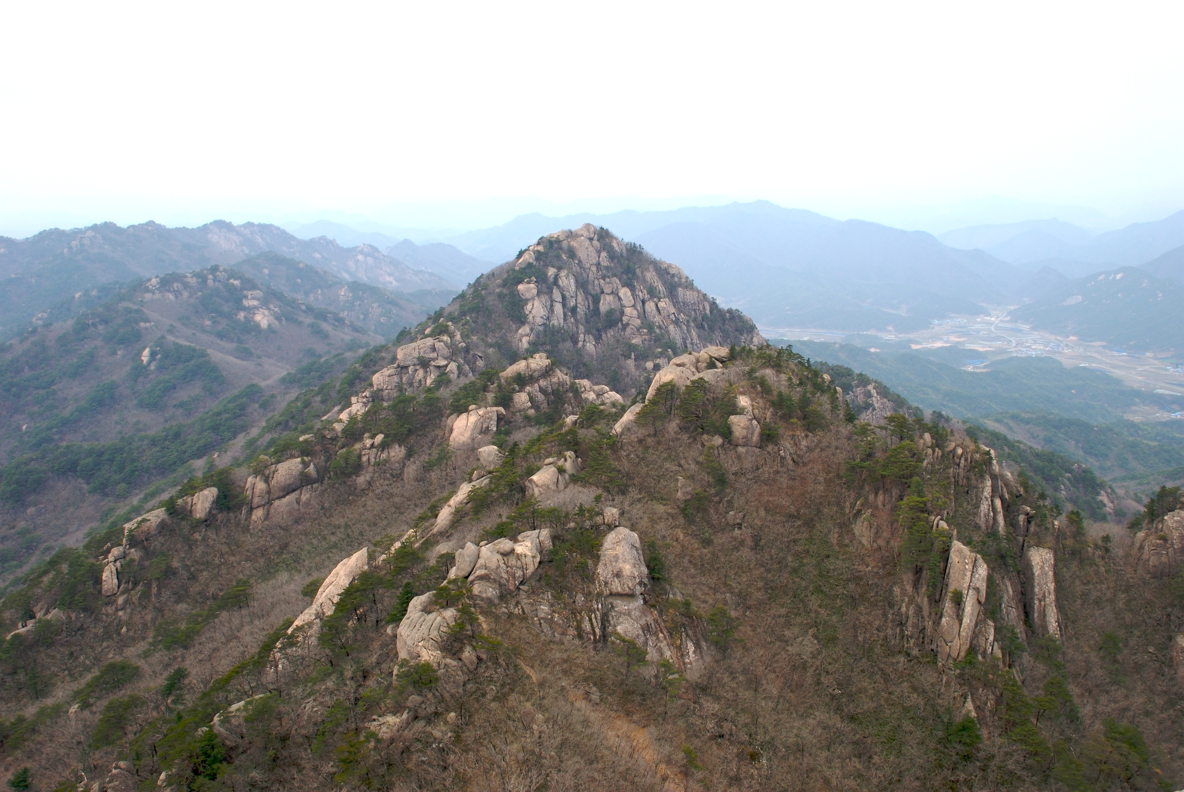 Gwaneum Peak at Songnisan in South Korea. The photograph was taken from Munjandae.